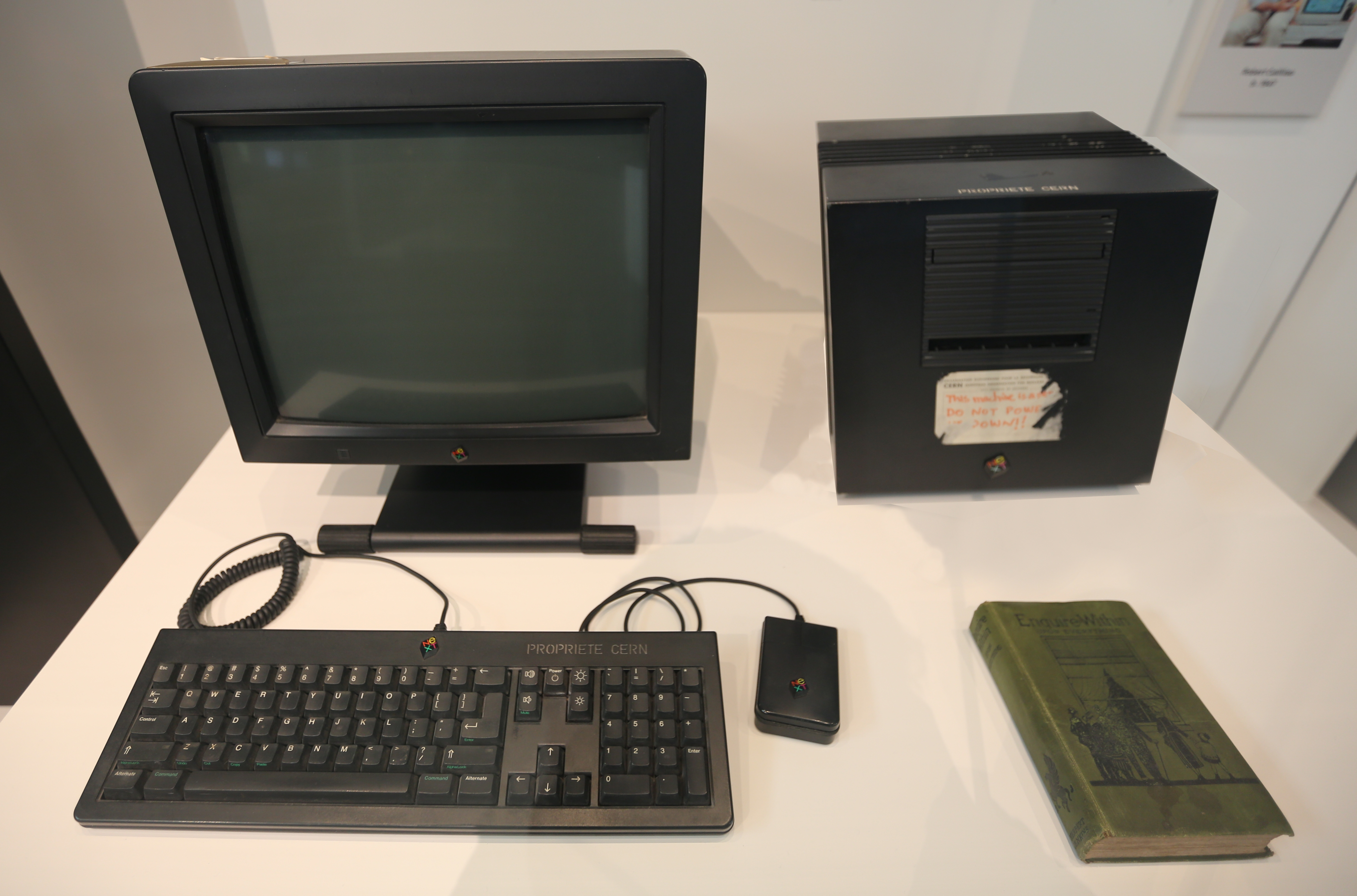 Photo of the NeXTcube used as the first web server. The label reads "This machine is a server. DO NOT POWER IT DOWN!!". On display at the science museum london.